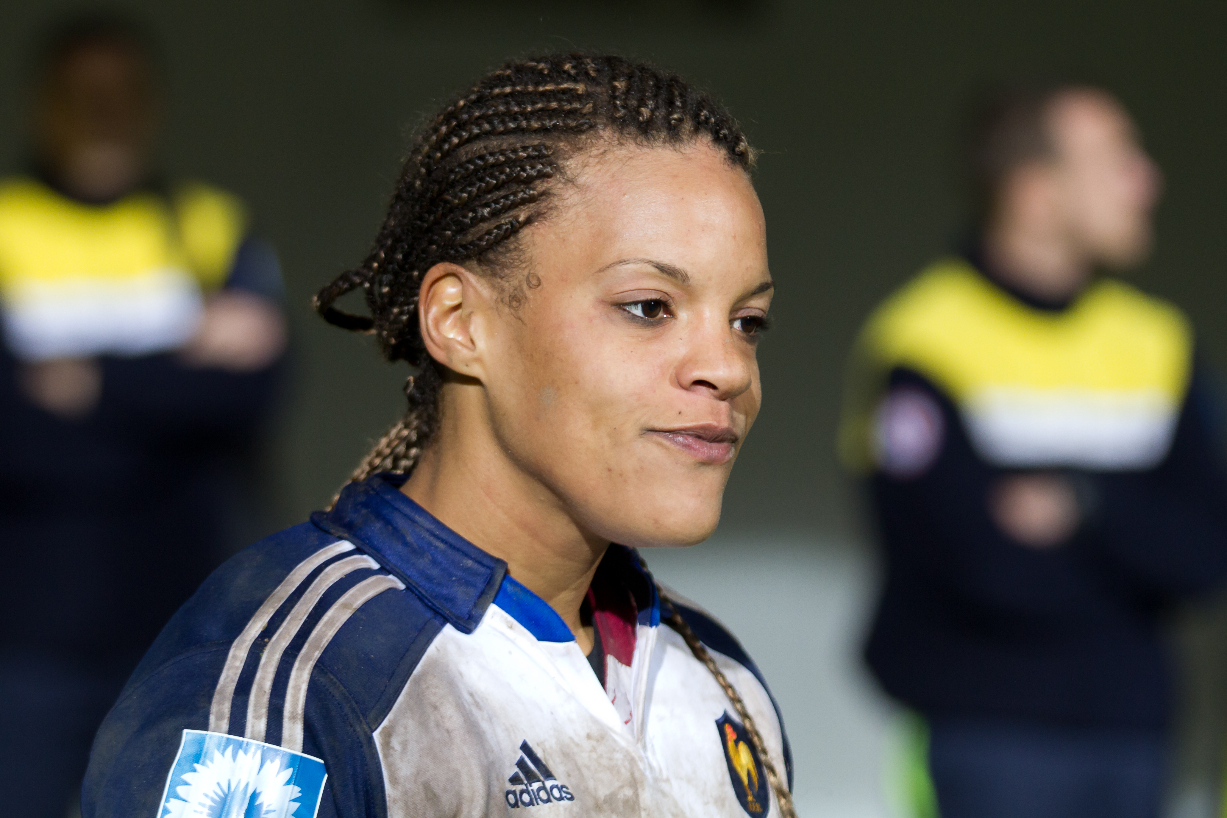 2014 Women's Six Nations Championship — 9 February 2014, Stade Ernest Argeles. Match between: France women's national rugby union team — Italy women's national rugby union team